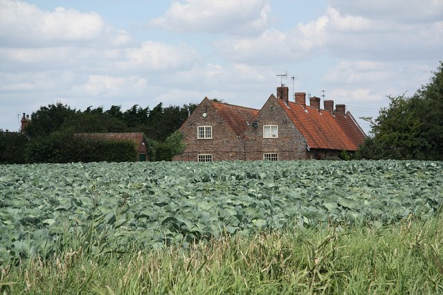 Middlecott's Hospital In 1625 Sir Thomas Middlecott founded these almshouses for ten poor folk of good name and repute of Fosdyke and Algarkirk. The building is inconveniently remote for today's elderly people and it was sold in the late 1970s, the money being used to build modern bungalows in Fosdyke and Algarkirk. The cottages are now privately owned homes.